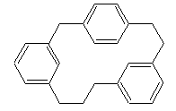 1,6(1,3),3(1,4)-tribenzenacyclononaphane